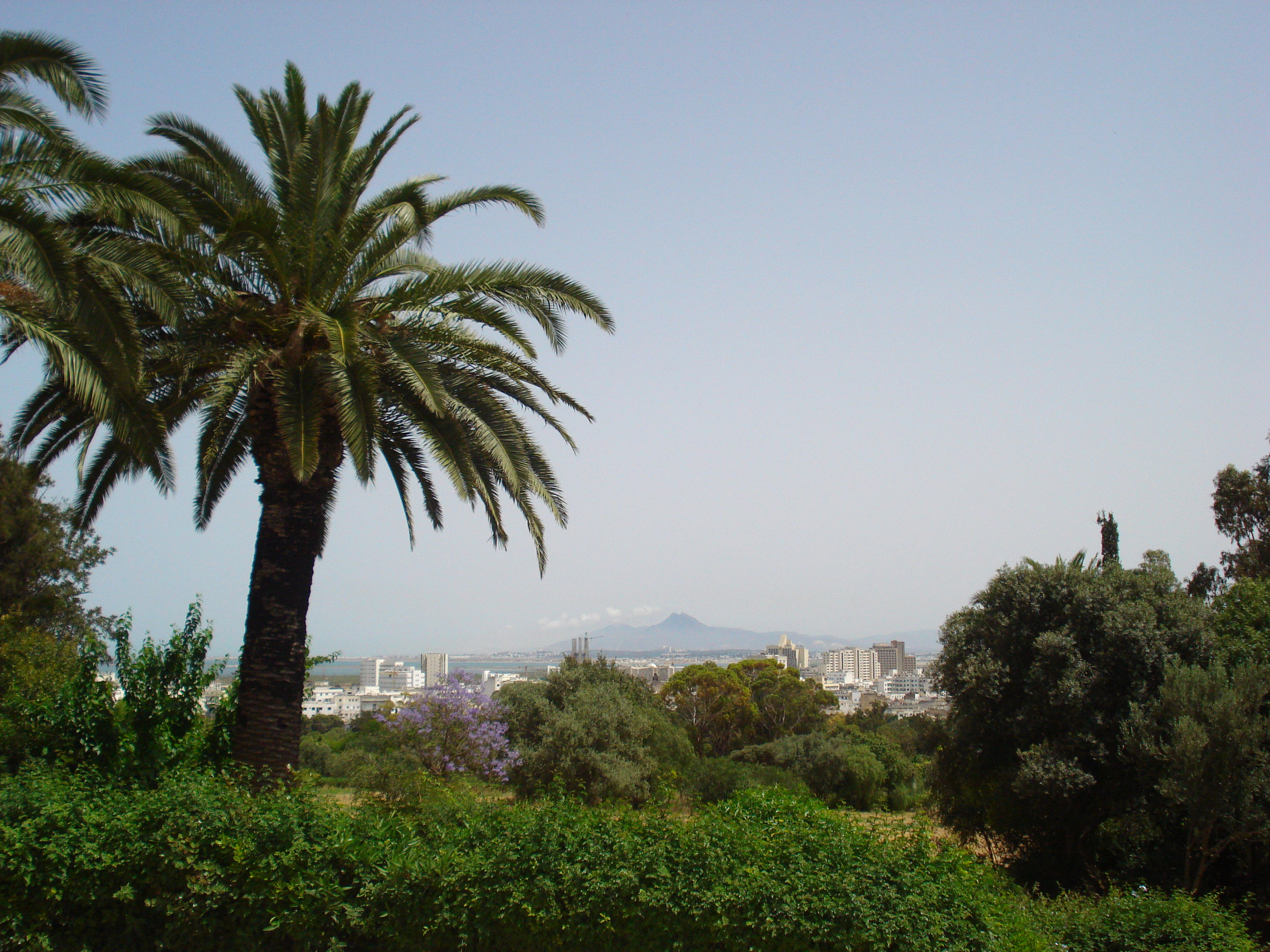 Tunis as seen from Koubbet lahwè in Belvédère (Tunisia)